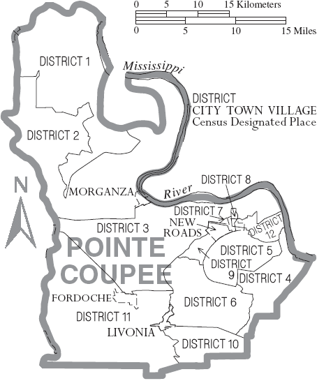 Map of Pointe Coupee Parish, Louisiana, United States with municipal and district boundaries